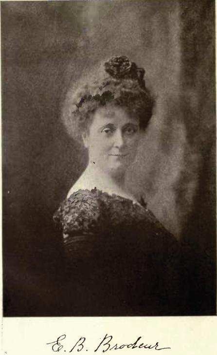 Madame Emma Brodeur (Emma Brillon). "From a photograph by Topley, Ottawa".